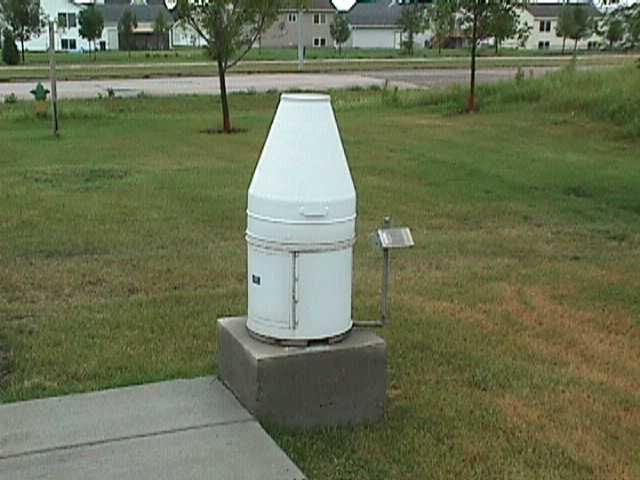 The most common type of recording precipitation gauge is the Fisher Porter (F&P) gauge, developed by the Belfort instrument Company. The Fisher Porter gauge is designed to work for many years in remote and harsh environments. The F&P gauge weighs the precipitation it collects in a large metal bucket. This bucket sits atop a mechanism which converts the weight of the water into the measuring unit of inches and then, every 15 minutes, punches holes in a paper tape, recording the amount of precipitation. In the winter months the bucket is filled with anti-freeze which allows snow and ice to melt and be accurately measured.